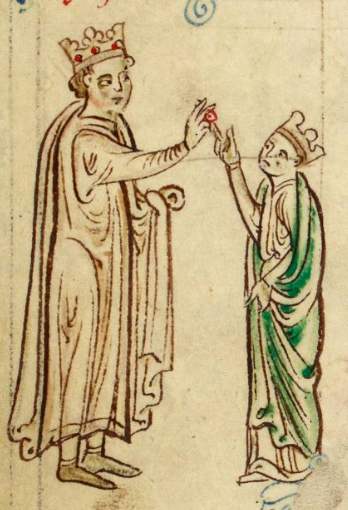 Eleanor of Provence and Henry III